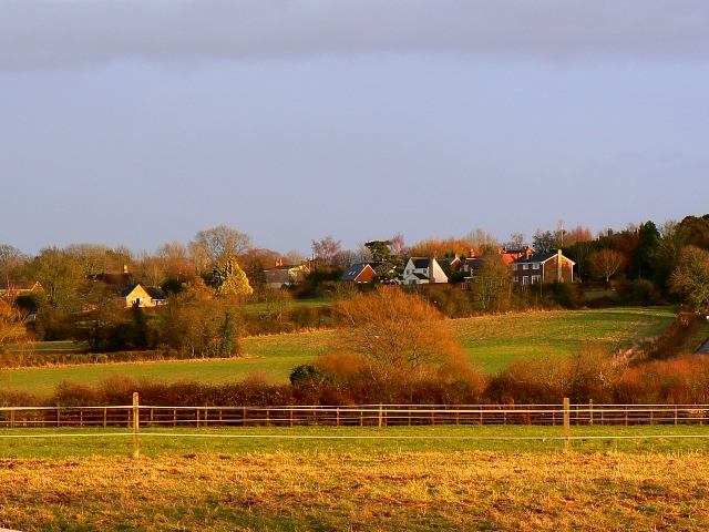 Upper Wanborough, Swindon The village of Wanborough is situated on the top of a hill and spreads down the north face of the hill. The maps refer to 'Wanborough' as the part at the top and to 'Lower Wanborough' being the rest. Locally the term 'Upper Wanborough' is used to distinguish the higher part.